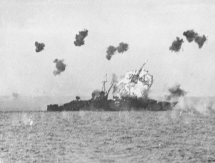 The U.S. Navy heavy cruiser USS Louisville (CA-28) is hit by a kamikaze in Lingayen Gulf, Philippine Islands, 6 January 1945. The aircraft was a Mitsubishi Ki-51. 43 men were killed and at least 125 were wounded. Rear Admiral Theodore E. Chandler, commander of Cruiser Division 4 (CruDiv 4) was among the killed, as he was fatally injured helping sailors man handle the fire hoses to put out the massive flames during the attack.